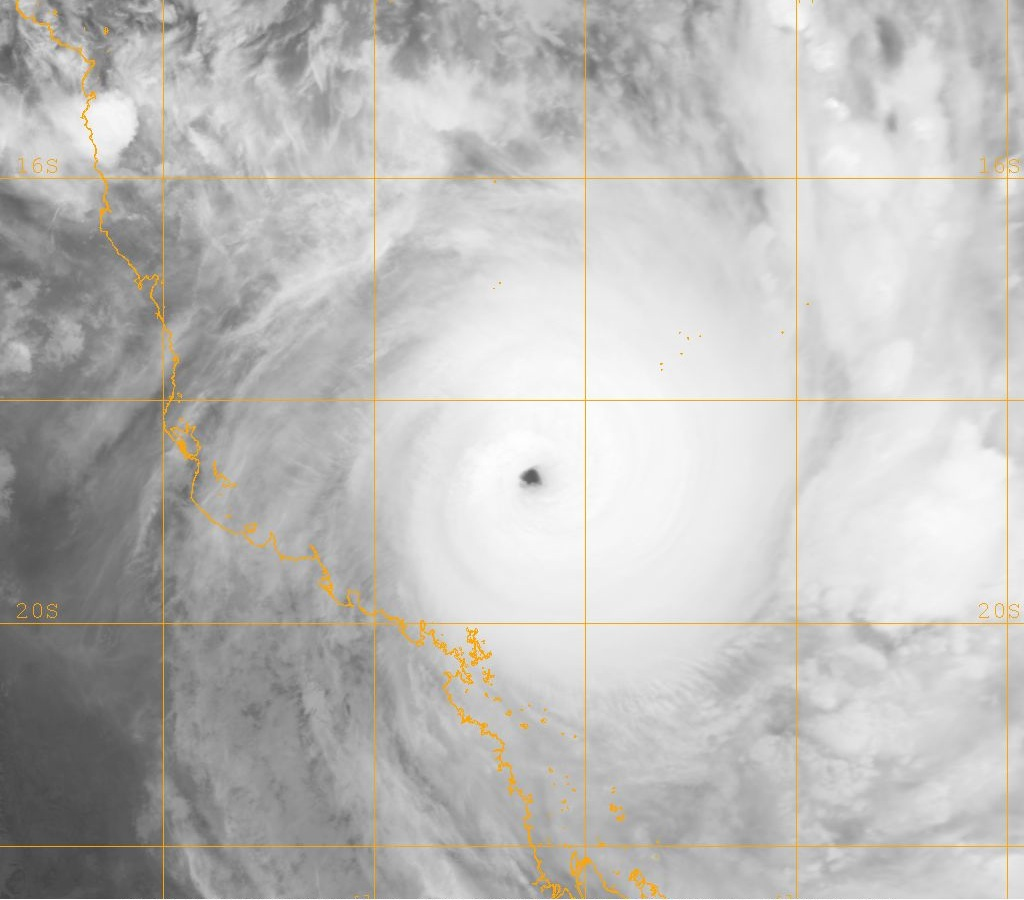 Severe Tropical Cyclone Hamish near peak intensity